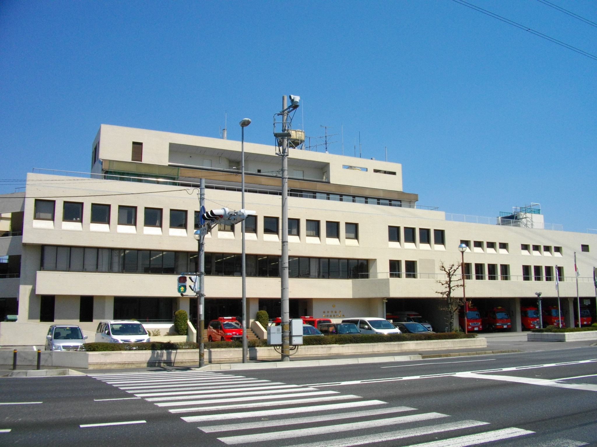 Kashiwa City Fire Department